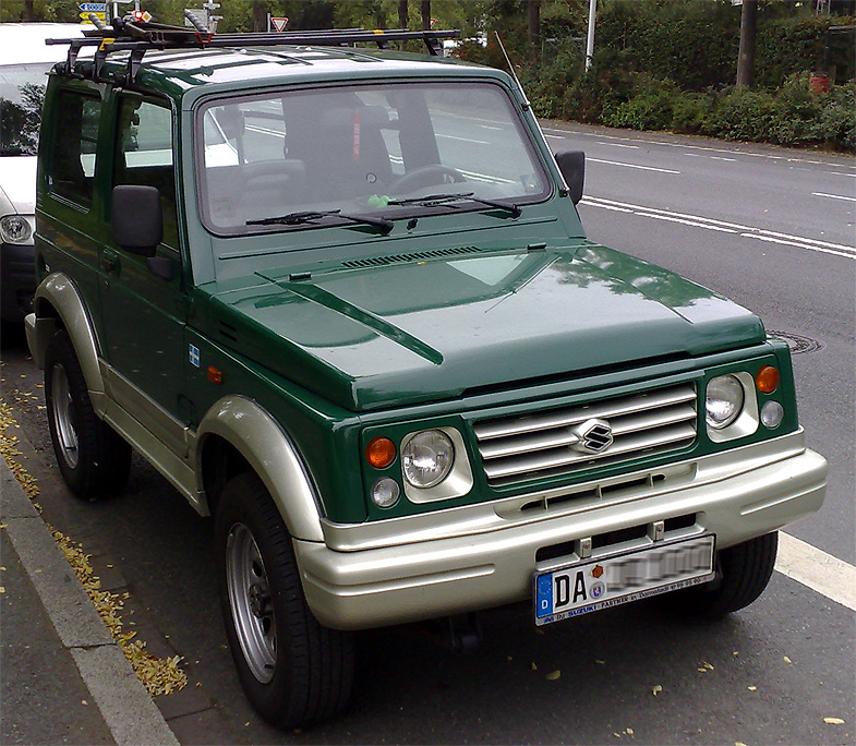 Suzuki Samurai